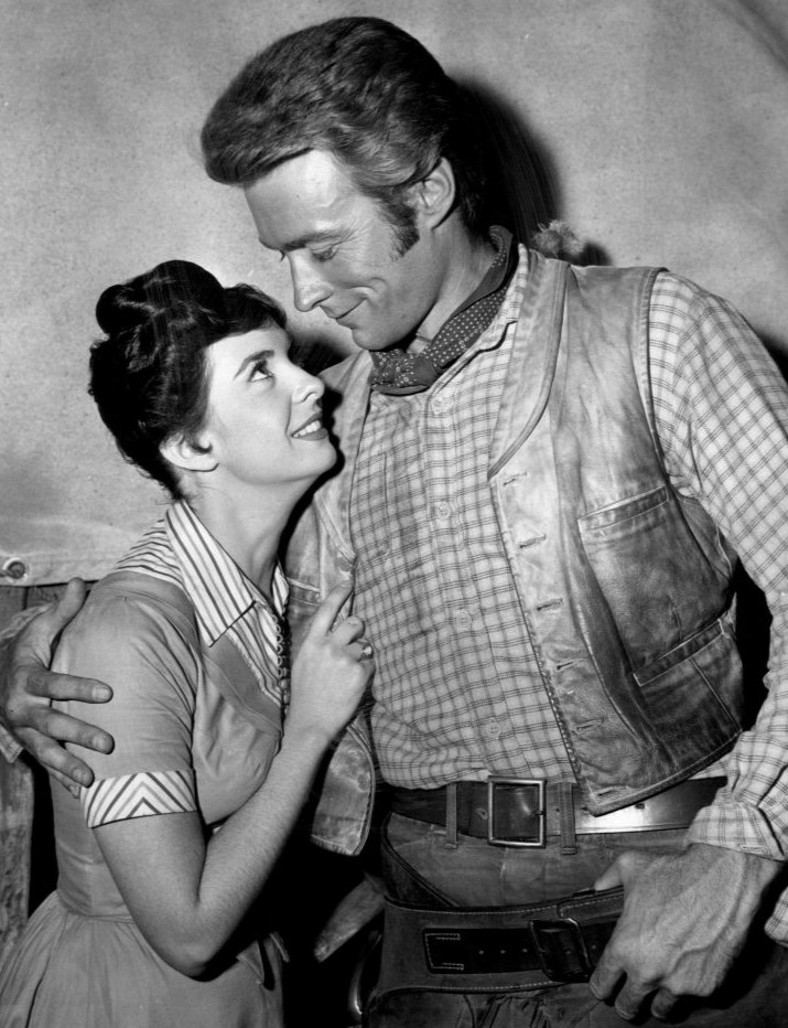 Photo of guest star Margaret O'Brien and Clint Eastwood as Rowdy Yates from the television program Rawhide. This episode is "Incident of the Town in Terror". When it's believed Rowdy has contracted anthrax, the town fears for its citizens and livestock and quarrantines the drovers and their cattle.